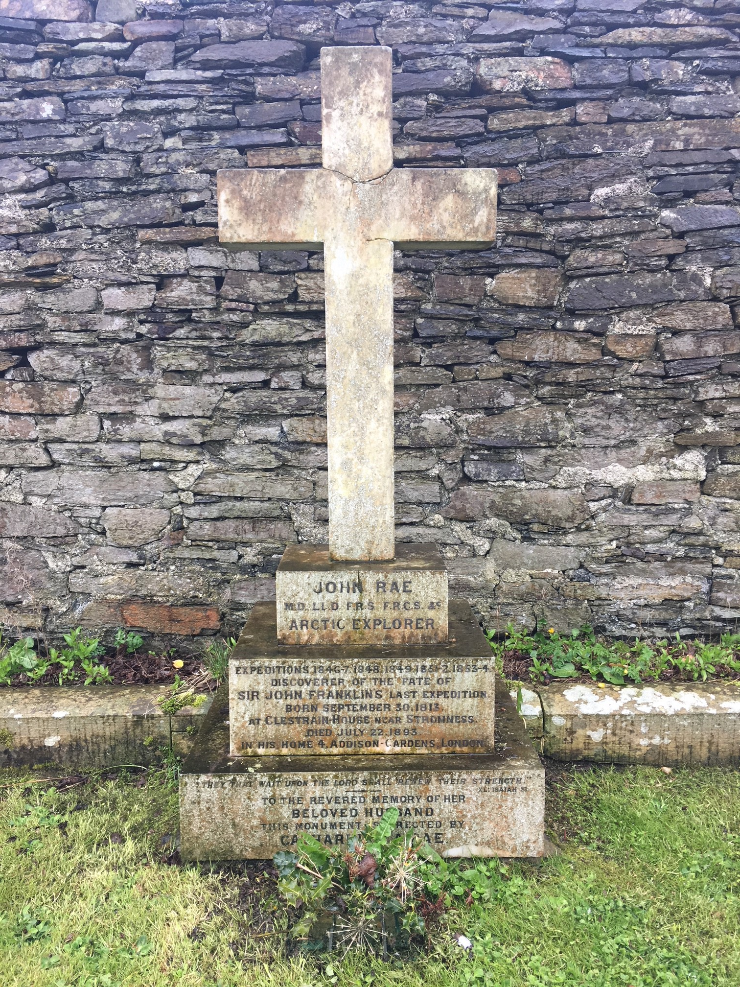 John Rae grave in Kirkwall Cathedral graveyard, Orkney